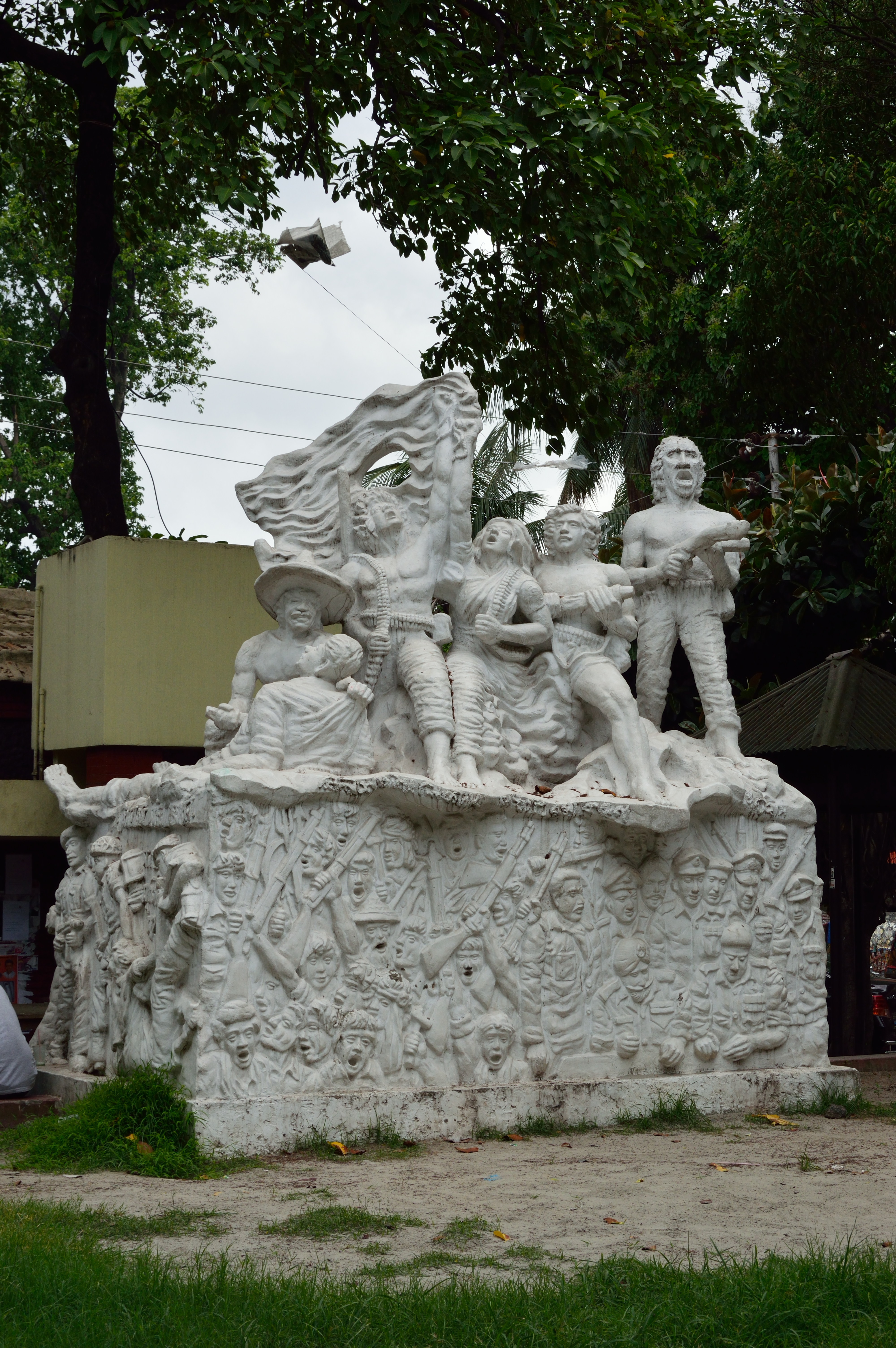 Photographed in Dhaka, Bangladesh.